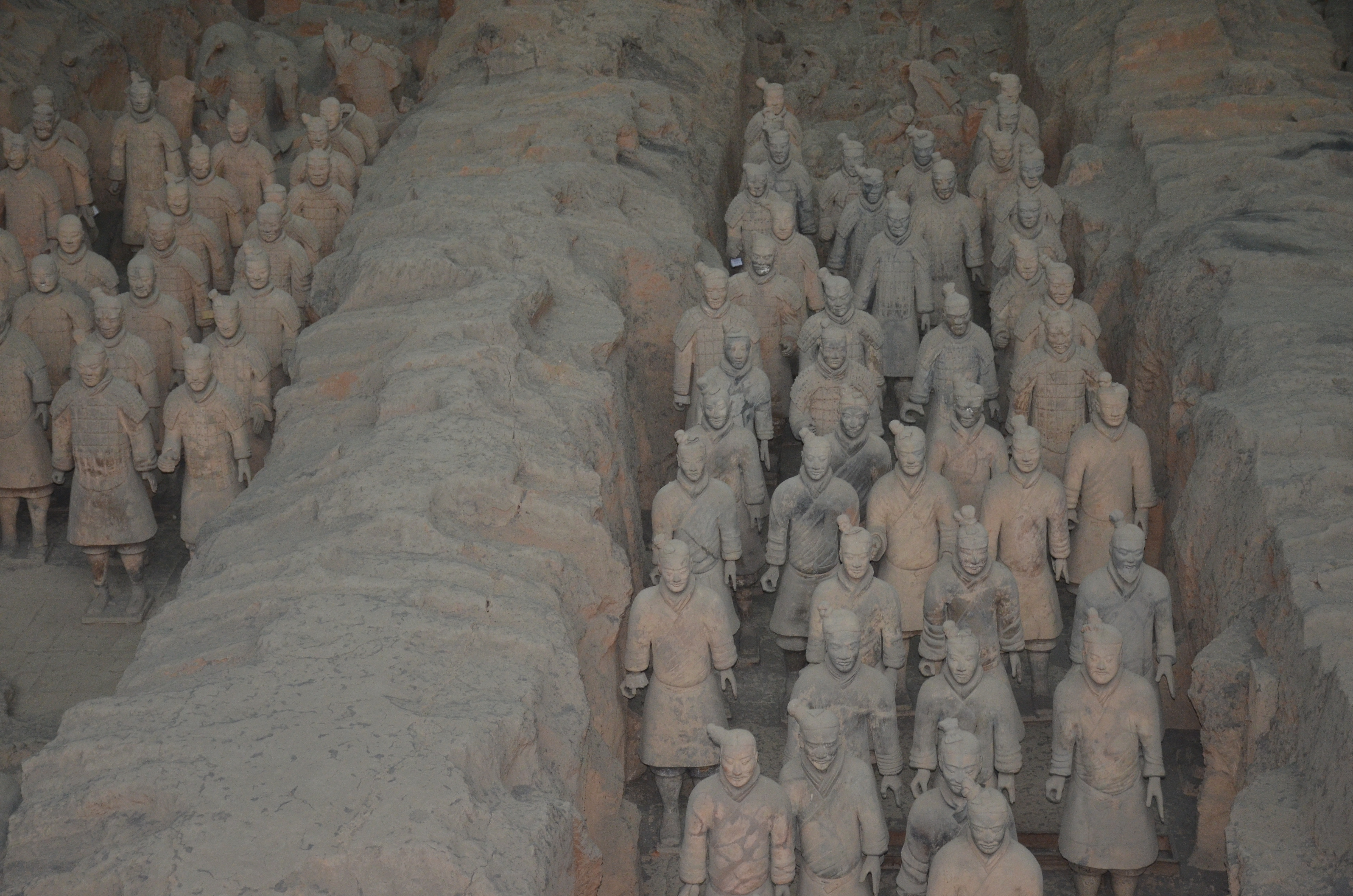 I kept gazing awe-struck at the Terracotta warriors excavations. Rows of terracotta warriors are meticulously arranged in rows and rows of pits. The figures, dating from approximately the late third century BC were discovered in 1974 by local farmers digging a well. The figures vary in height according to their roles, with the tallest being the generals. The figures include warriors, chariots and horses. Estimates from 2007 were that the three pits containing the Terracotta Army held more than 8,000 soldiers, 130 chariots with 520 horses and 150 cavalry horses, the majority of which remained buried in the pits nearby Qin Shi Huang's mausoleum. Other terracotta non-military figures were found in other pits, including officials, acrobats, strongmen and musicians. (Xi'an, Shaanxi, China, May 2017)